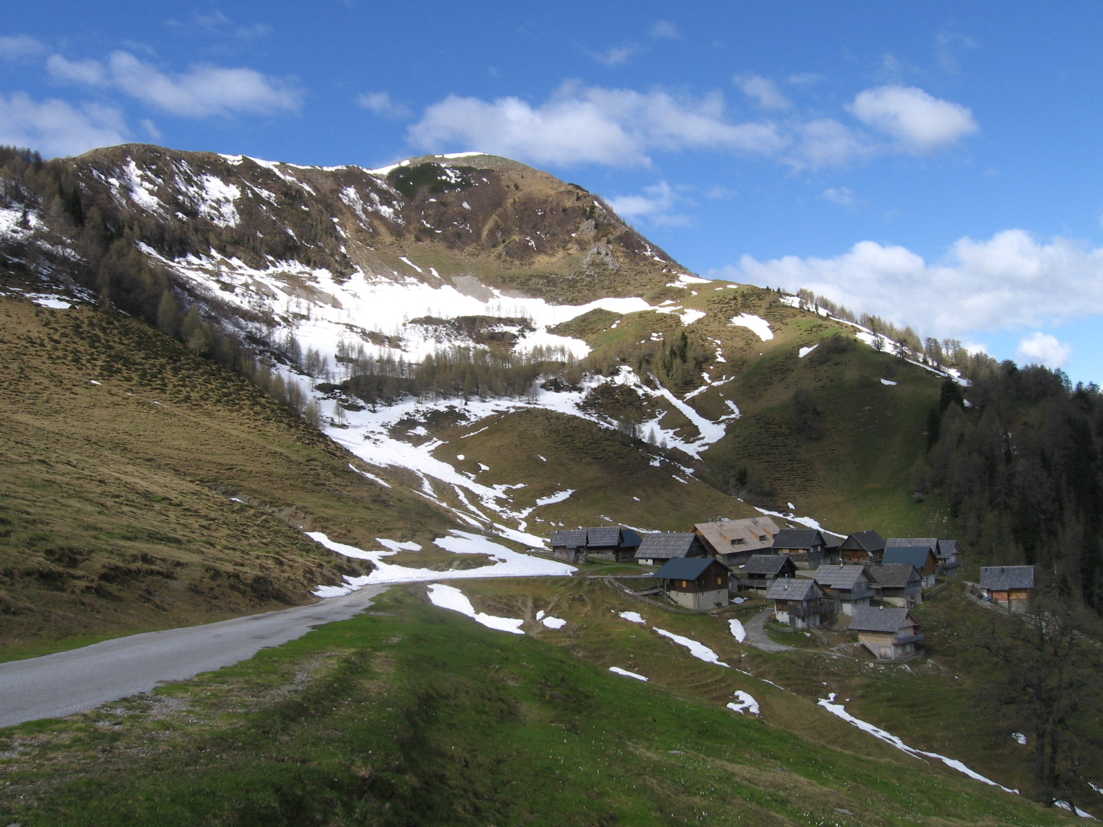 Mount Poludnig (1.999 m) with Poludniger Alm meadow, on the border between Austria and Italy.